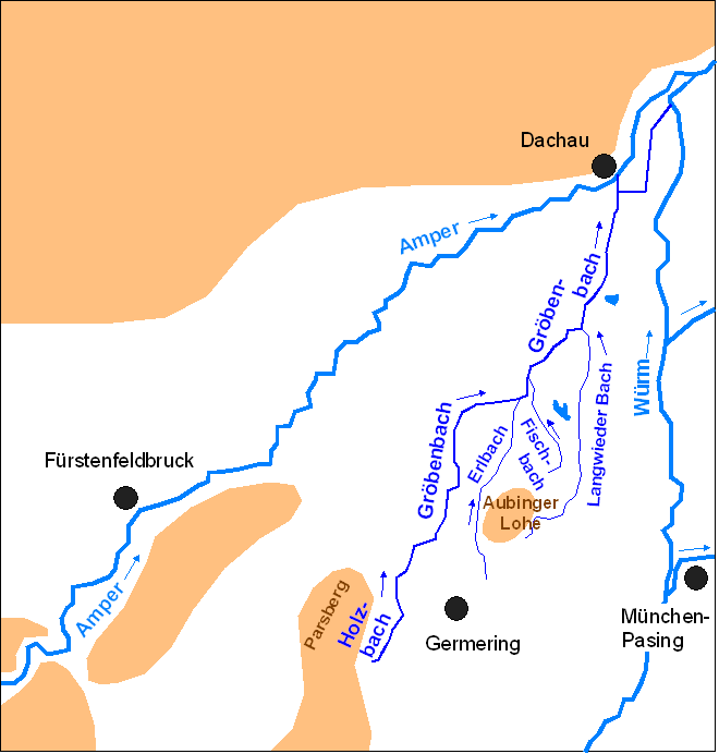 catchment area of Gröbenbach (Germany, Bavaria)